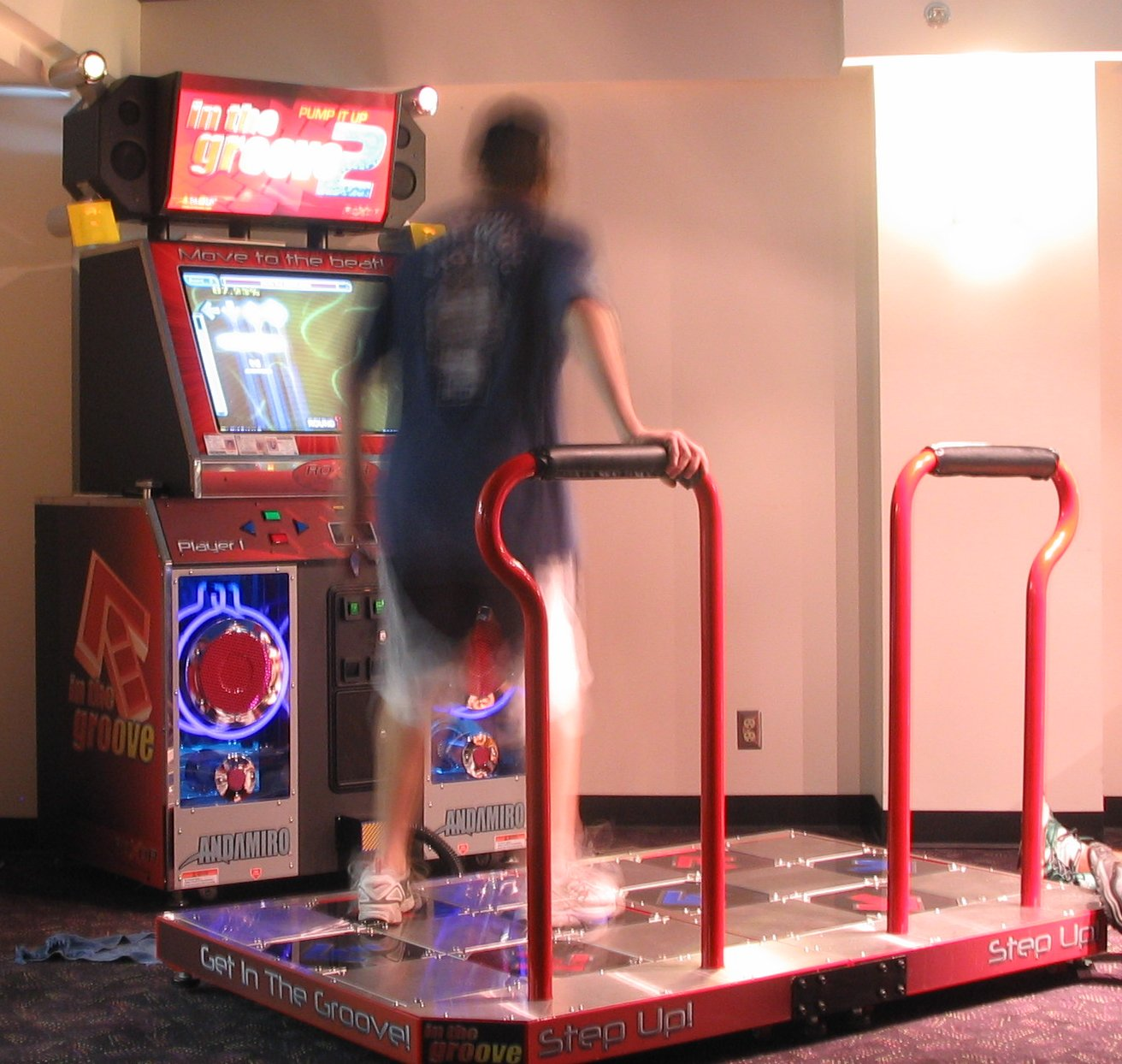 I took this picture and hereby release it to Wikipedia under the lisence below.